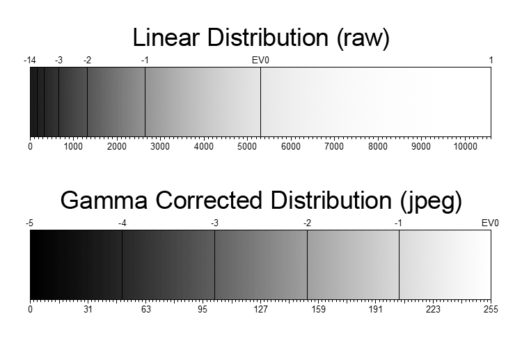 Comparison of linear and gamma distribution.